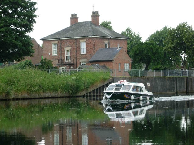 Spalding Water Taxi, Coronation Channel. The Spalding Water Taxi runs a frequent service between the town centre and Springfields via the River Welland and the Coronation Channel.